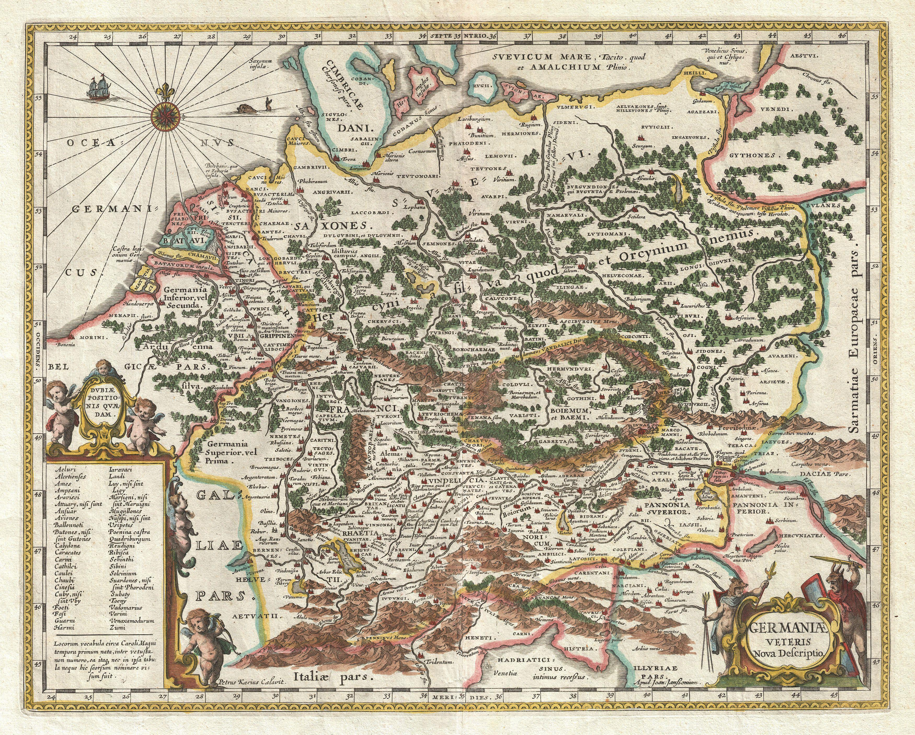 This is a remarkable example of Jan Jansson's 1657 mapping of Germany in antiquity. Depicts a richly forested region covering from Gaul to Dacia and from the Baltic Sea to the Adriatic Sea. Cartographically this map exhibits heavy influence from a very similar map of the same name published by A. Ortelius in his 1597 Parergon . Based on Greek and Roman sources including Pliny, Strabo, Virgil, Ceasar, and others. Ships and monsters decorate the seas. A decorative title cartouche depicting curious warlike figures in animal skins appears in the lower right quadrant. A second cartouche appears in the lower left. This remarkable map was published in volume six, the Orbis Antiquus , of Jan Jansson's Novus Atlas .